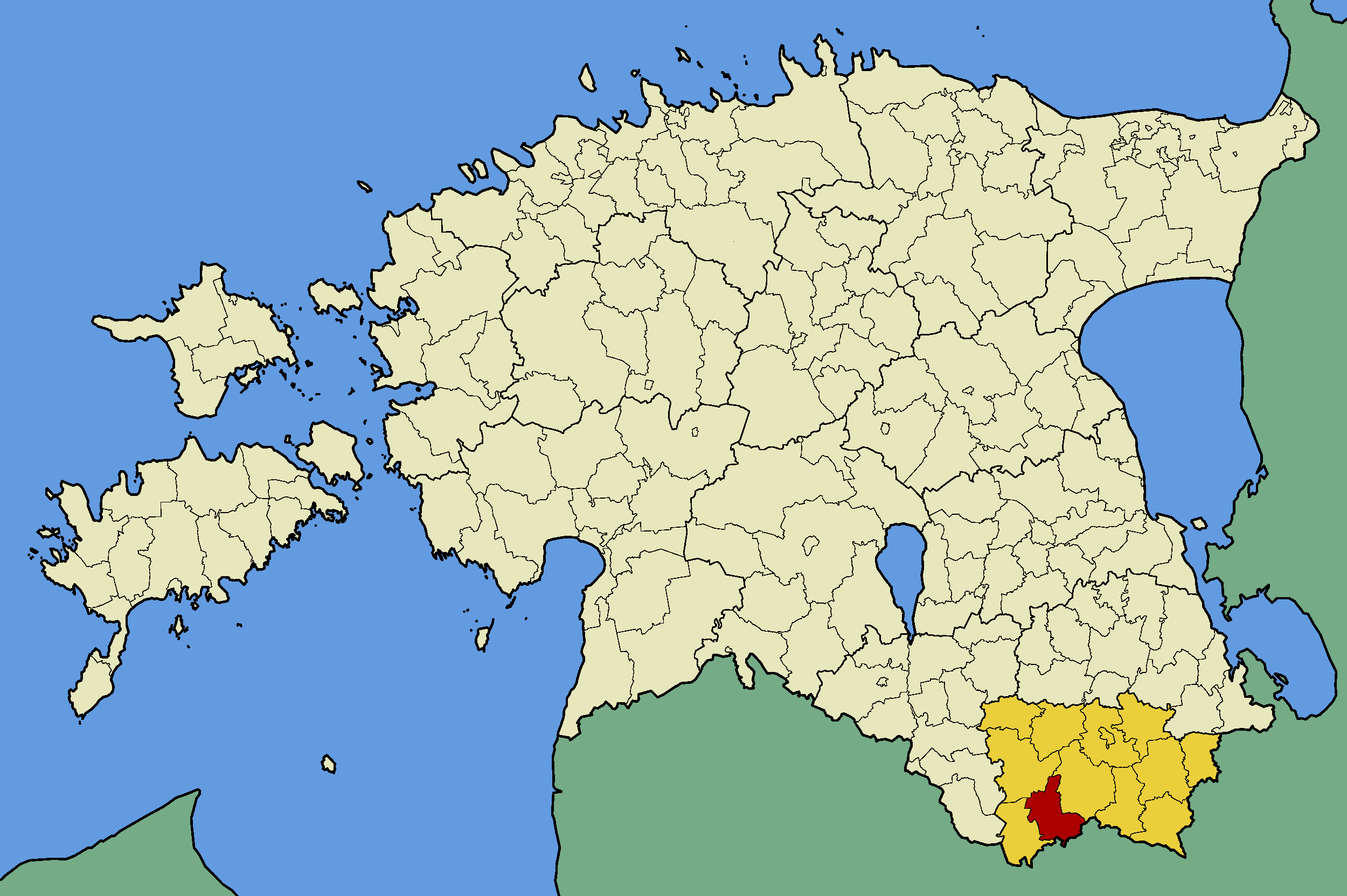 Map of Estonia with borders of municipalities (parishes). Võru county and Varstu municipality emphasized.